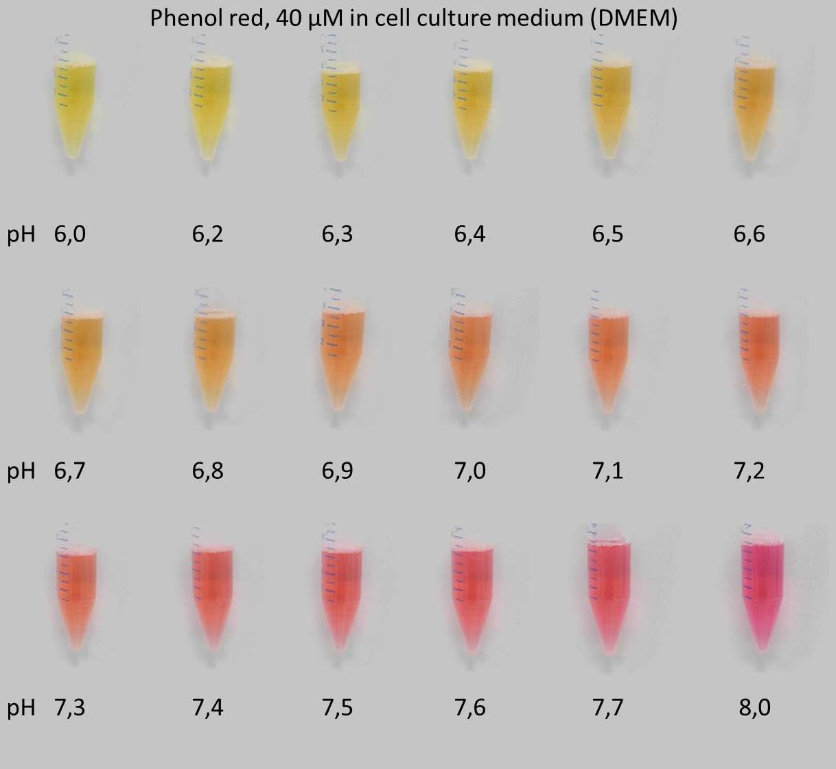 diagram of pehnol red colors in the pH range of 6.0 to 8.0. There were used phenol red 40 µM in Dulbecco's Modified Eagle Medium (DMEM).